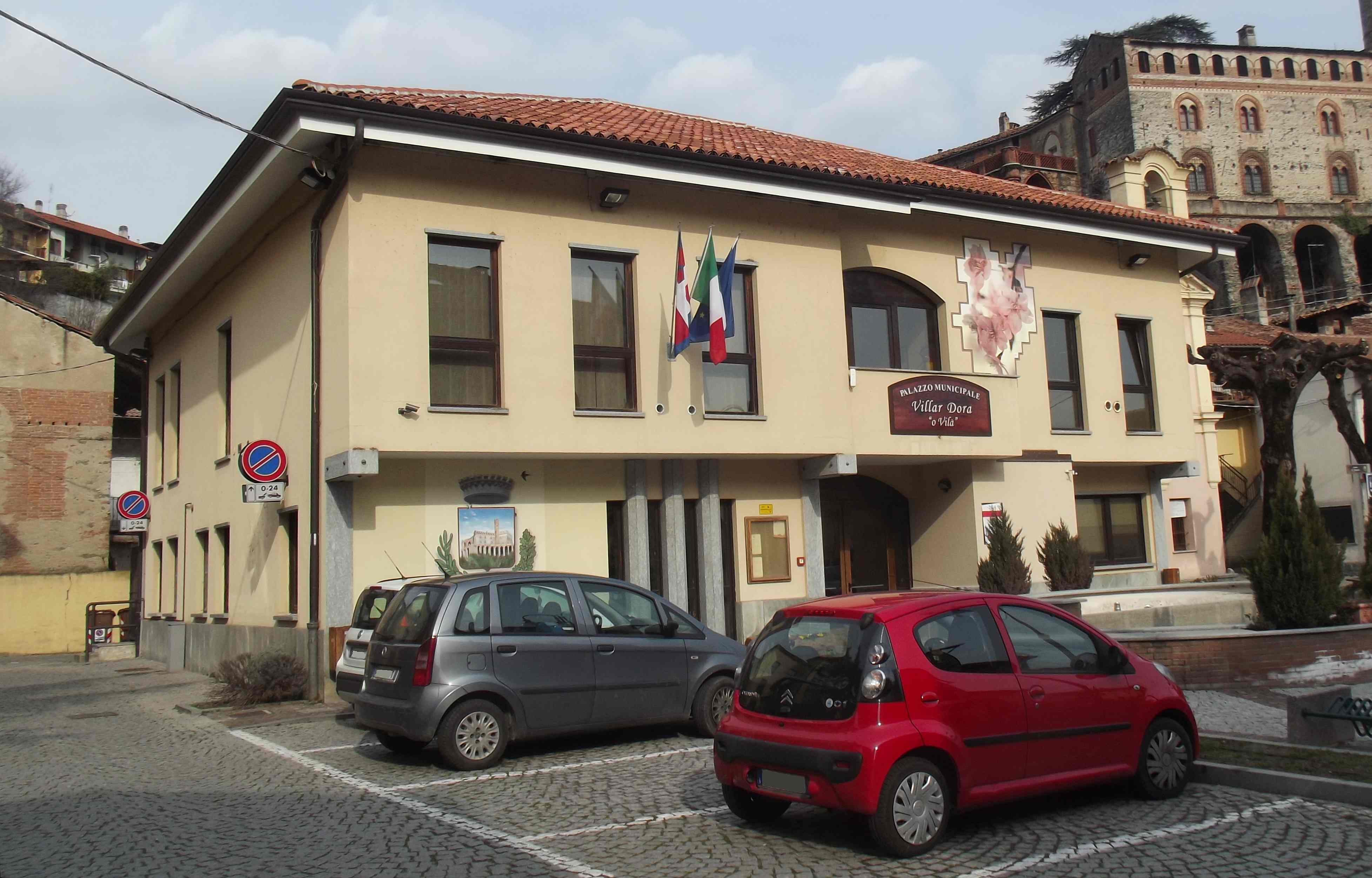 Villar Dora (TO, Italy): town hall